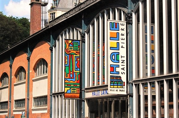 Museum Art Naïf Max Fourny, Paris 18th district, France